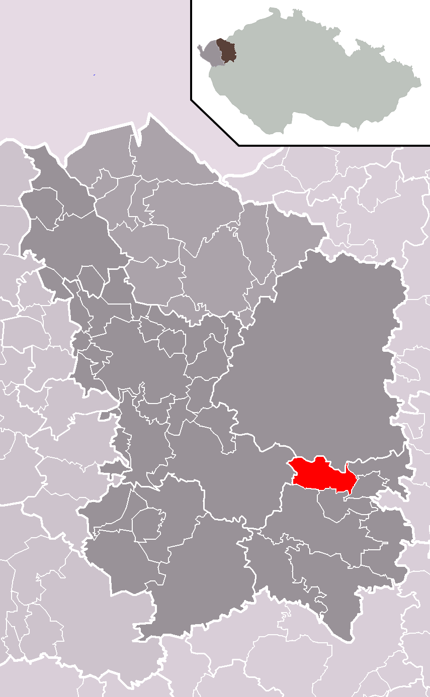 Location of Verušičky municipality within Karlovy Vary District and administrative area of Karlovy Vary as a Municipality with Extended Competence.